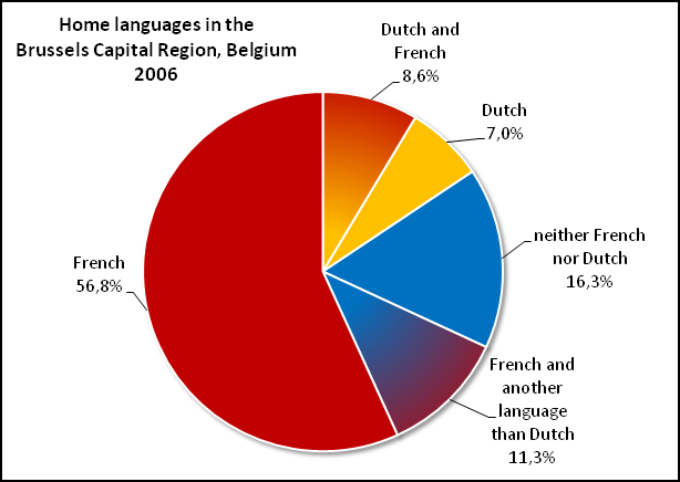 Distribution of languages spoken at home in the Brussels Capital Region, Belgium